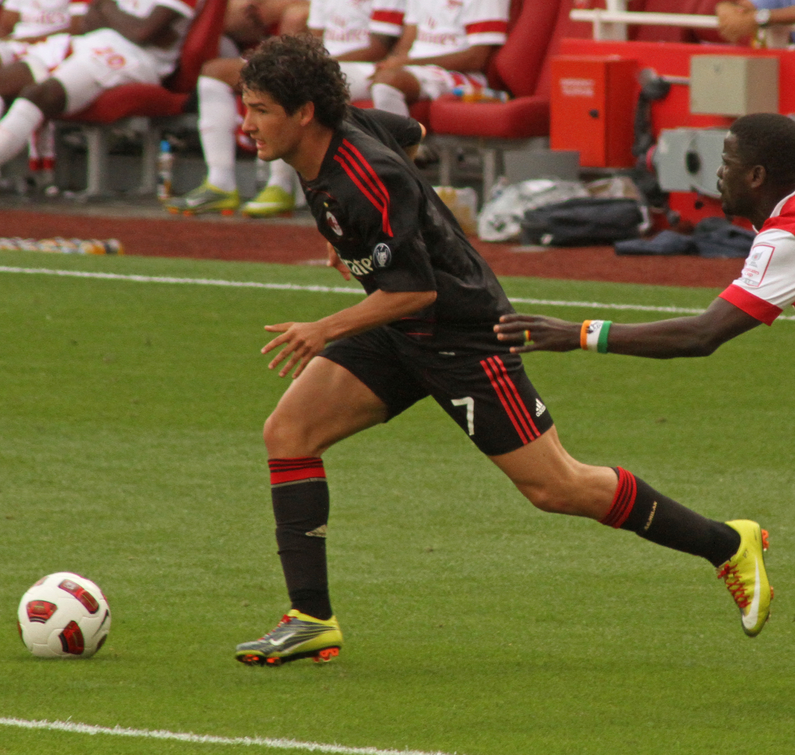 Alexandre Pato during Emirates Cup 2010